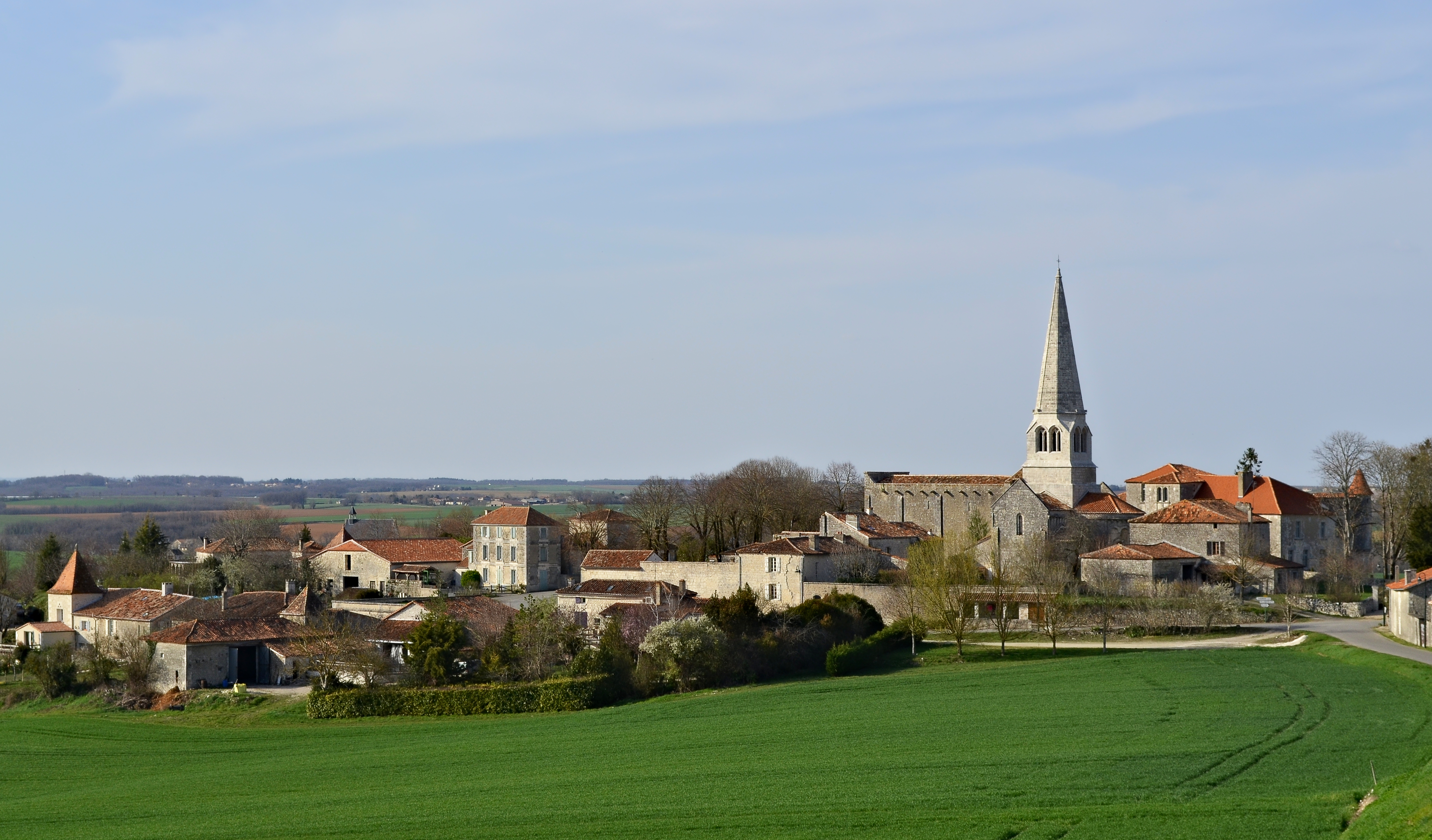 Charmant, Charente, France. View of the village as seen from the shrine, near road D 123.